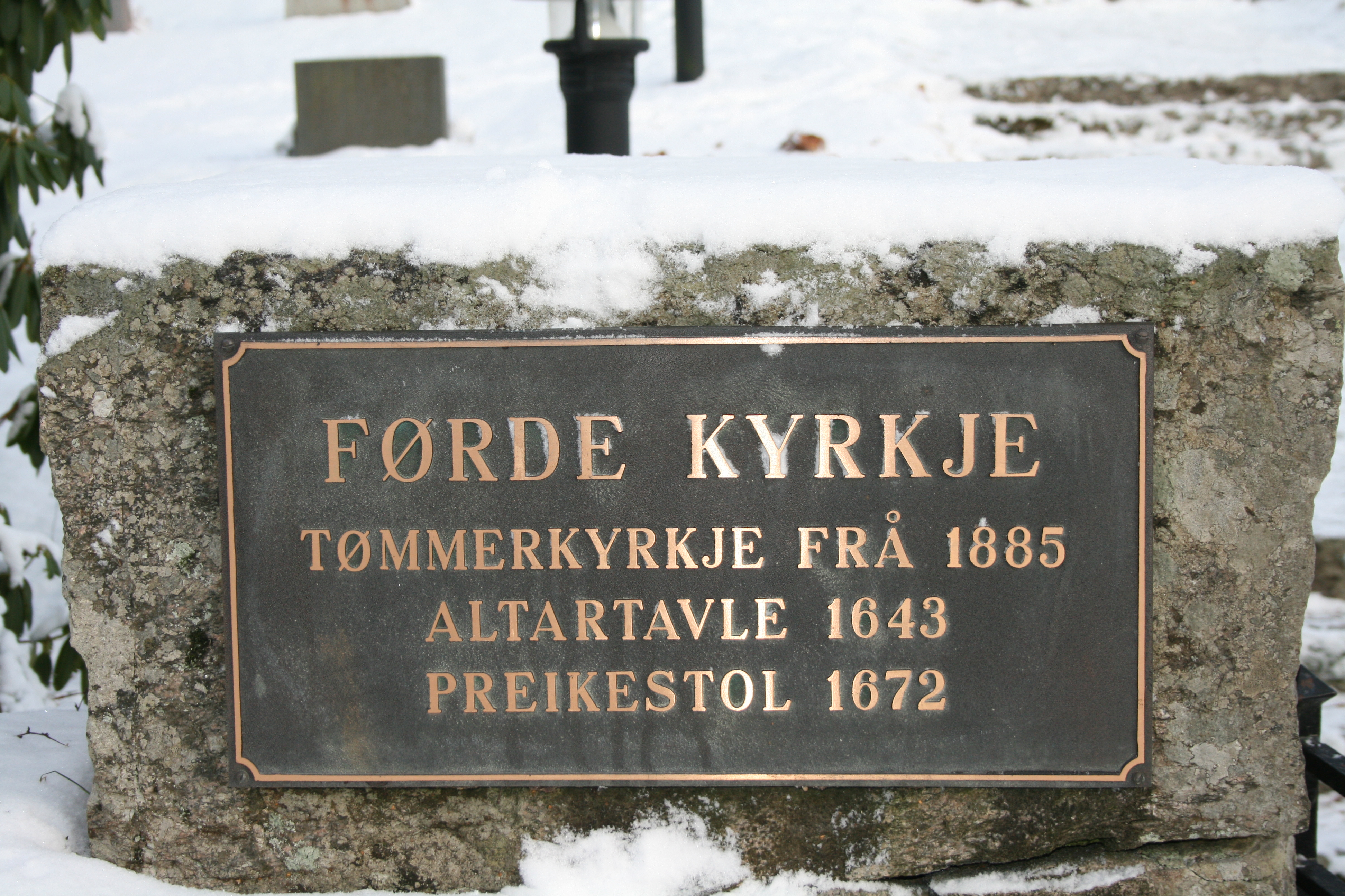 Sign at the gate of Førde church in Førde kommune, Sogn og Fjordane, Norway. Text means: "Wooden church from 1885. Altarpiece 1643. Pulpit 1672."